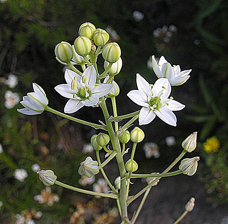 It is known locally as Lagrimas de la Virgin, but which family it belongs to seems controversial. In context at